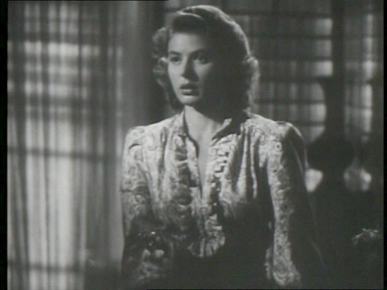 This screenshot shows Ingrid Bergman in a confrontational scene with Humphrey Bogart, where she is carrying a gun.